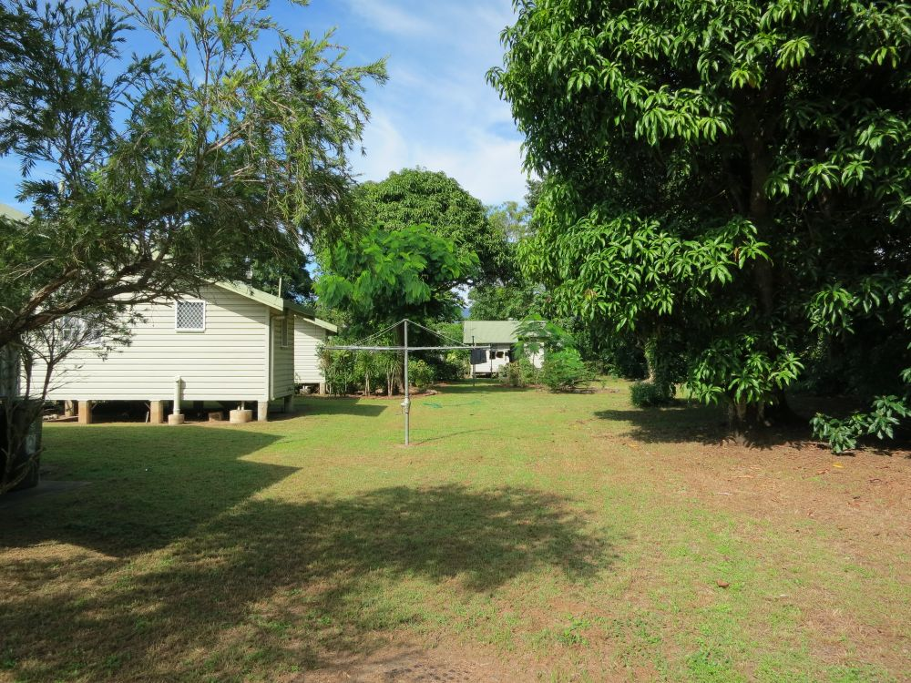 View southwest through rear gardens (EHP, 2017)